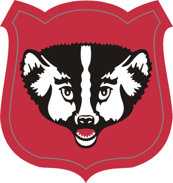 Description: On a red shield, 2 3/8 inches (6.03 cm) in width and 2 1/2 inches (6.35 cm) in height, a badger's face, black with white markings and red tongue. Symbolism: The red of the background is one of the National colors. The badger is from the crest of the State Seal of Wisconsin and alludes to the State nickname "The Badger State." Background: The shoulder sleeve insignia was originally approved for Headquarters and Headquarters Detachment, Wisconsin National Guard on 2 December 1952. It was redesignated for Headquarters, State Area Command, Wisconsin Army National Guard on 30 December 1983. The insignia was amended to correct the wording of the description and symbolism on 7 August 1986.